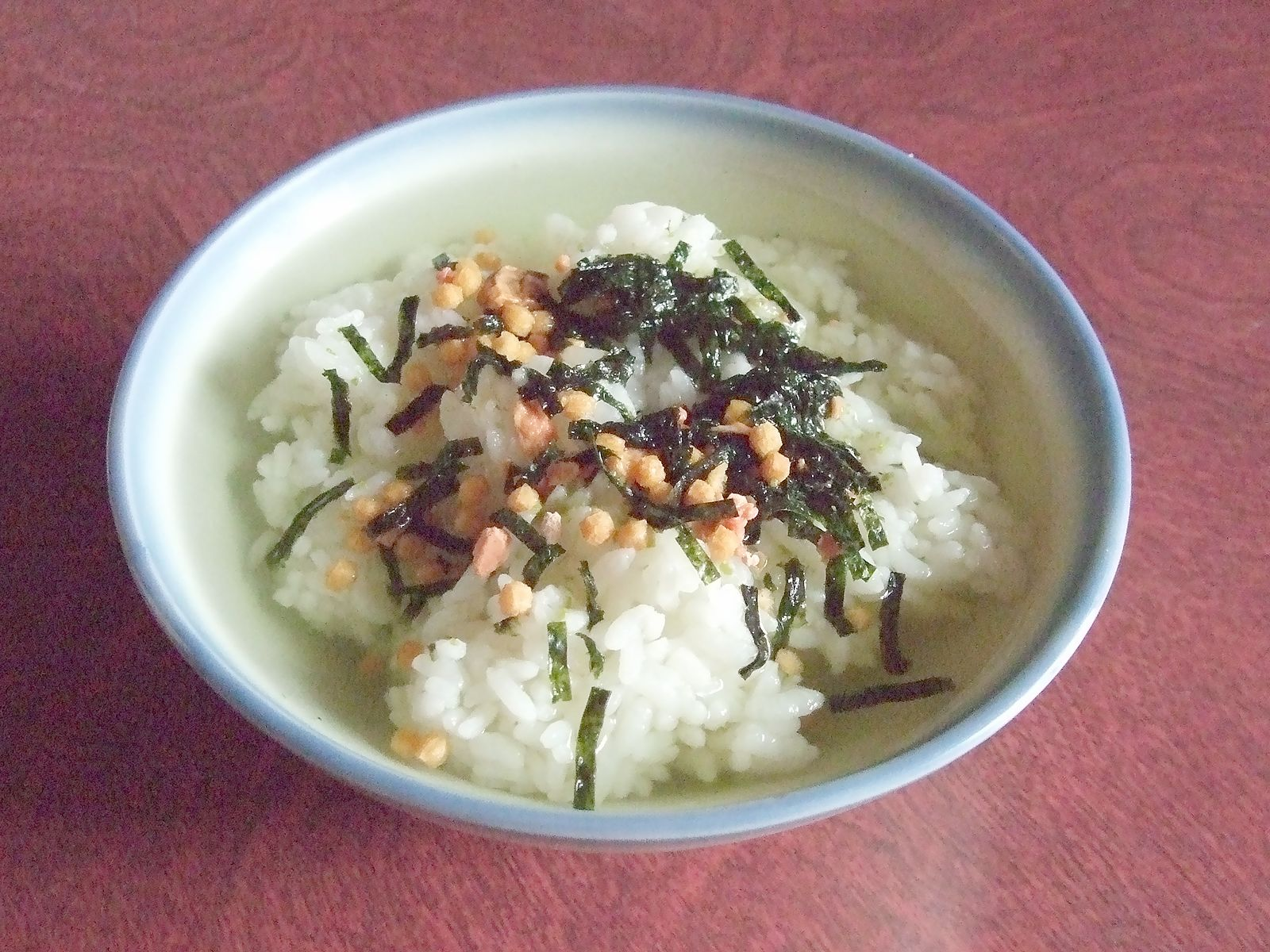 Nagatanien freeze-dried Chazuke "Sake-Chazuke"